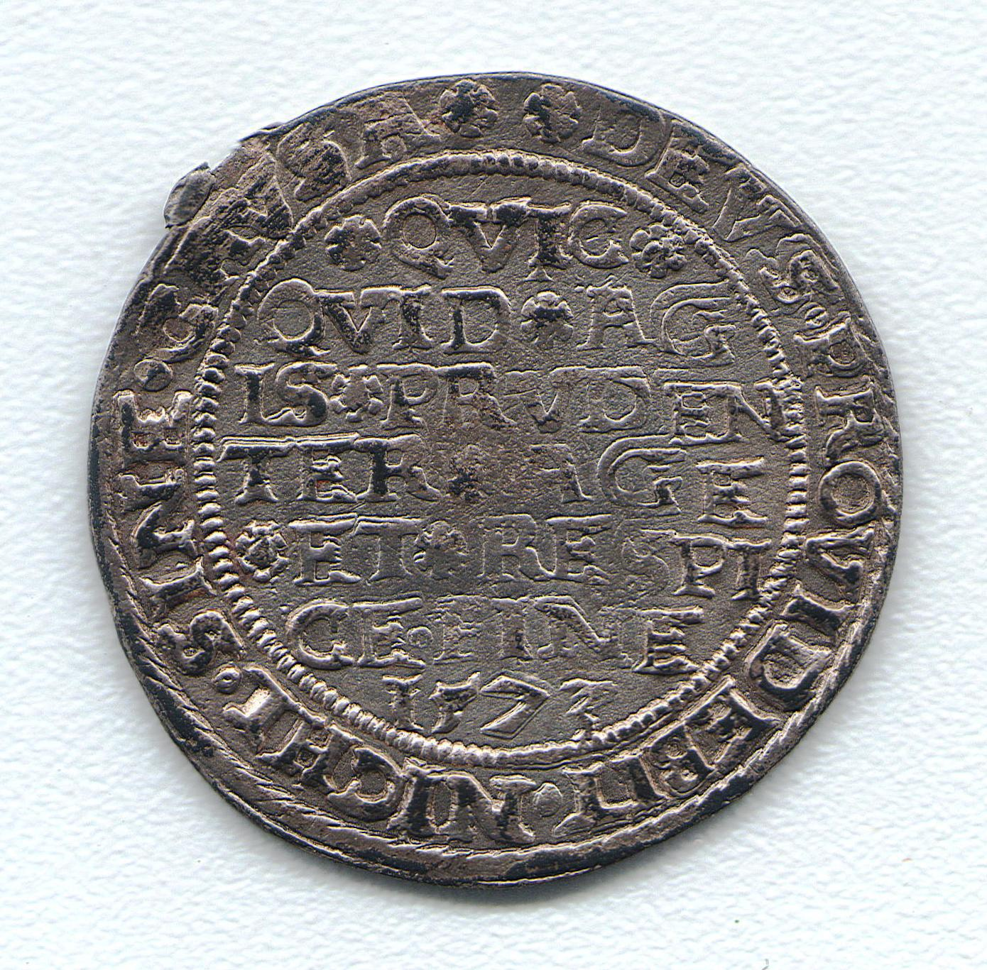 Jakub Krčín counter 1573 reverse Unknown